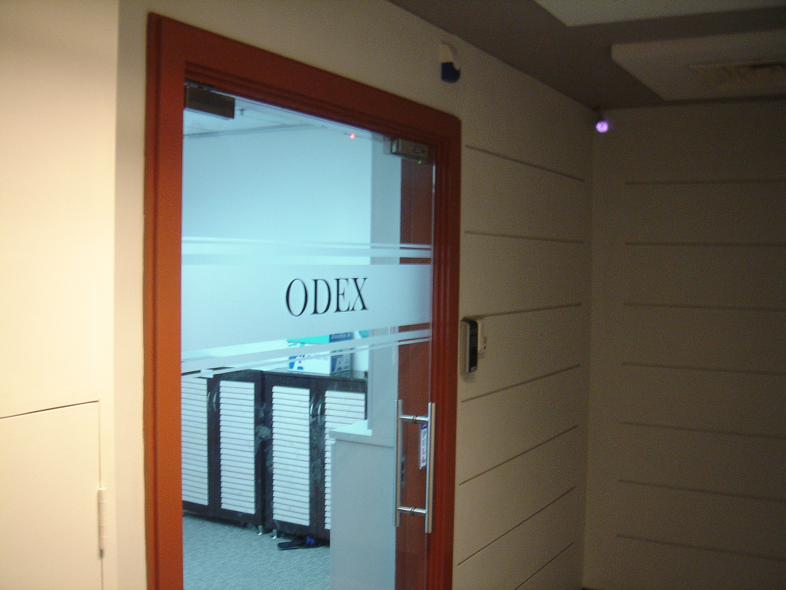 Odex's headquarters in International Plaza, Singapore.